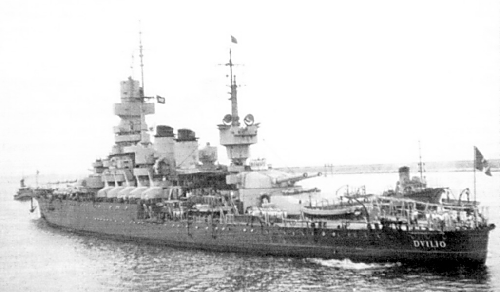 Italian battleship Caio Duilio in Naples in 1948.